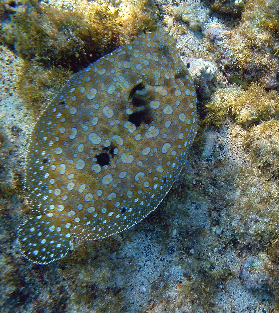 Peacock flounder